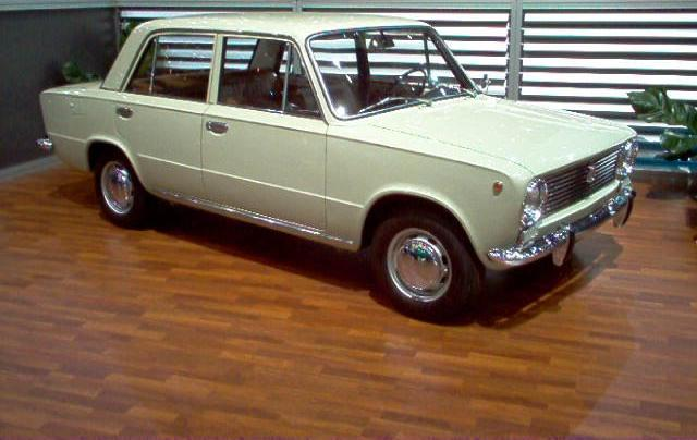 A Lada 1200 (VAZ-2101) on the 76th Geneva Motor Show.